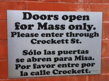 Spanish-English sign at Cathedral Santuario de Guadalupe in Dallas, Texas, on west side, demonstrating that the congregation has both English and Spanish speakers.